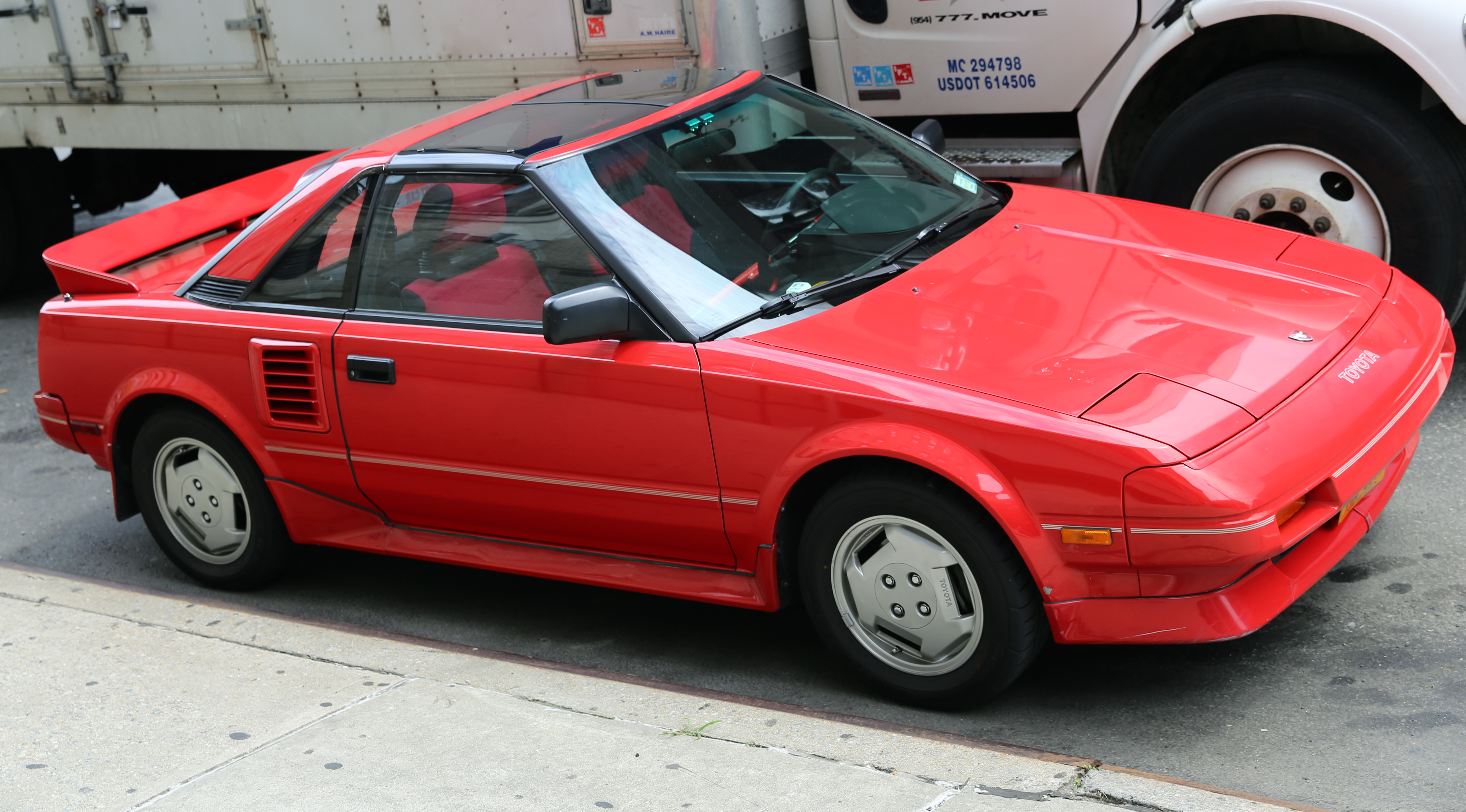 1987 Toyota MR2 T-Bar, AW11. This is the naturally aspirated 16-valve (4A-GE) model.